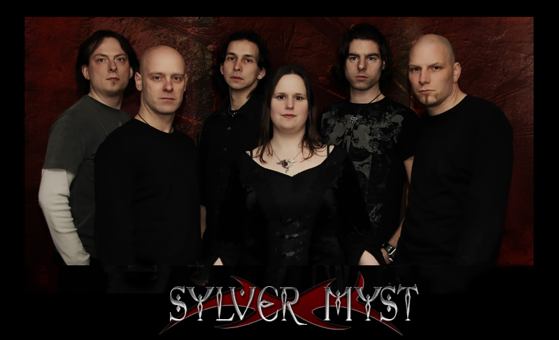 Sylver Myst: Musicians from left to right: Martijn, Marco, Didier, Tasmara, Bart, Rob